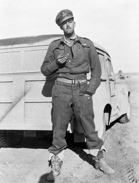 North Africa: Western Desert, Libya, Cyrenaica. Portrait of Flight Lieutenant Clive Caldwell RAAF of Sydney, NSW, a member of No. 250 (Tomahawk) Squadron RAF. When leading No. 250 Squadron in the area of El Adem on 5 December 1941, Caldwell engaged a formation of forty Junkers Ju-87 Stuka dive bombers and in the ensuing air battle created the magnificent record of shooting down five JU-87 aircraft earning his nickname of 'killer'.